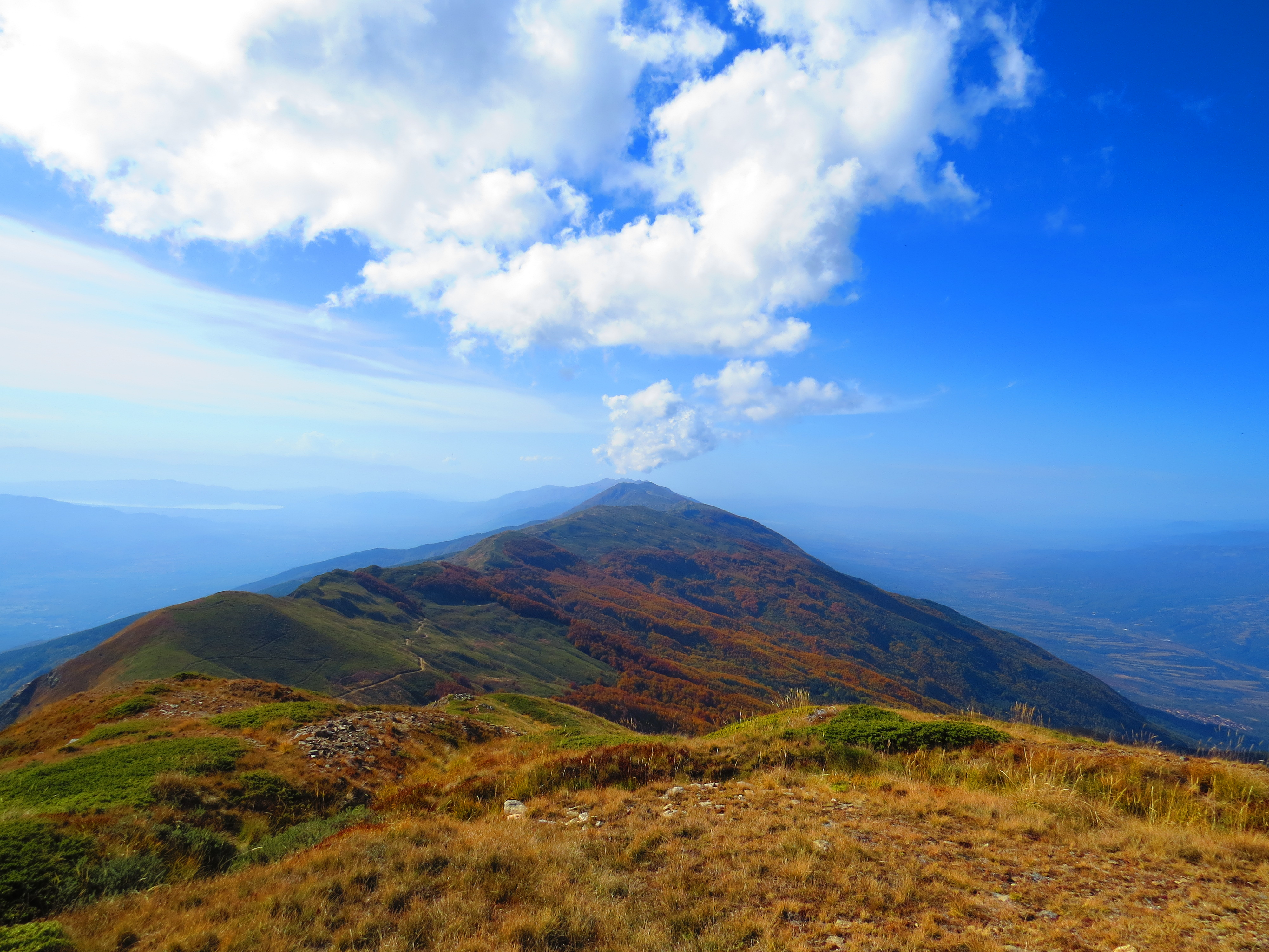 Peak Radomir, Belasitsa Nature Reserve, Bulgaria